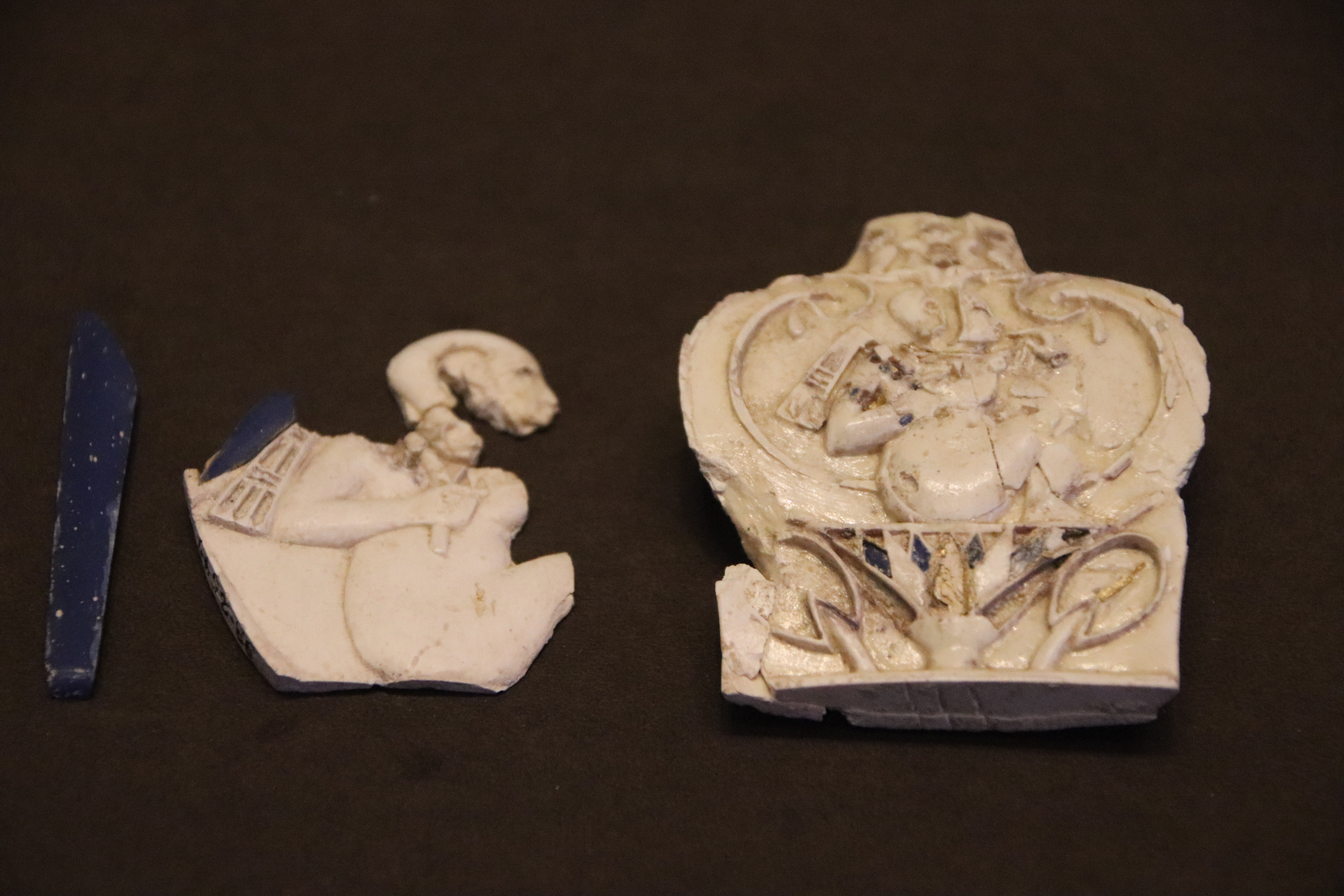 Israel Museum, Jerusalem, Israel. Complete indexed photo collection at